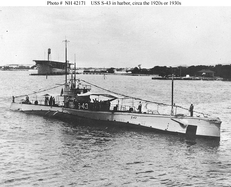 United States Navy submarine at San Diego, California, with aircraft carrier in the background.